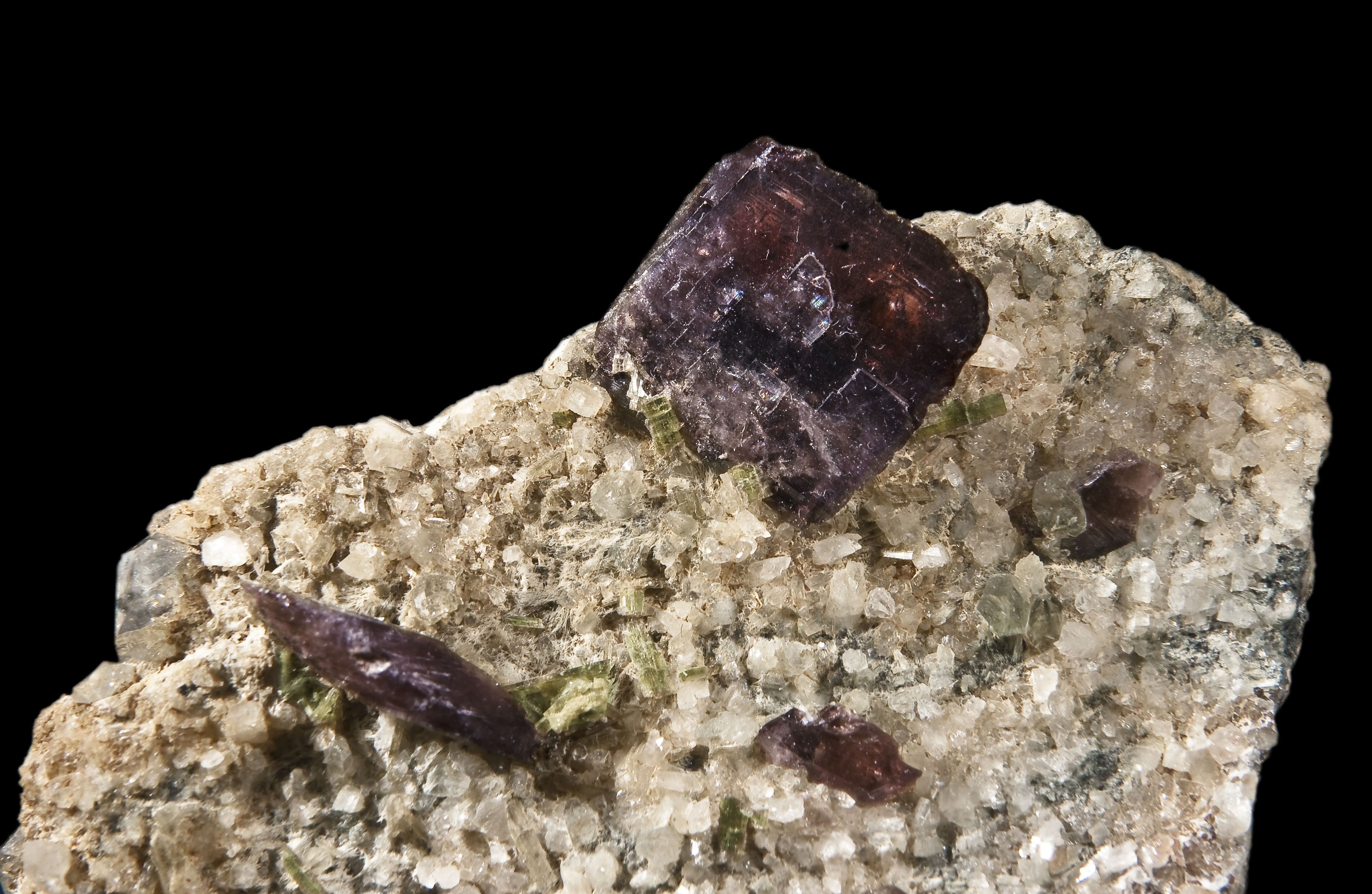 Ferro-axinite - St Christophe-en-Oisans Isère France - specimen of the nineteenth century -deposit topotype - (View 6cm)